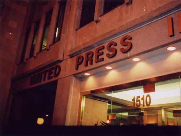 External of United Press International building in Washington D.C.